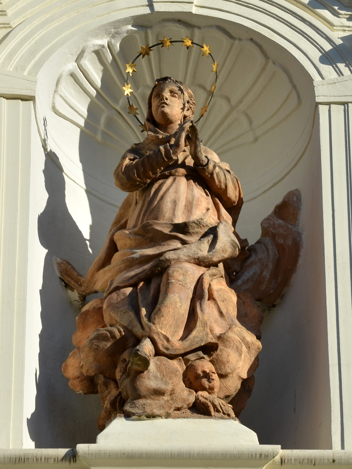 Virgin Mary, sculpture by Czech baroque sculptor Václav Kovanda in Jihlava